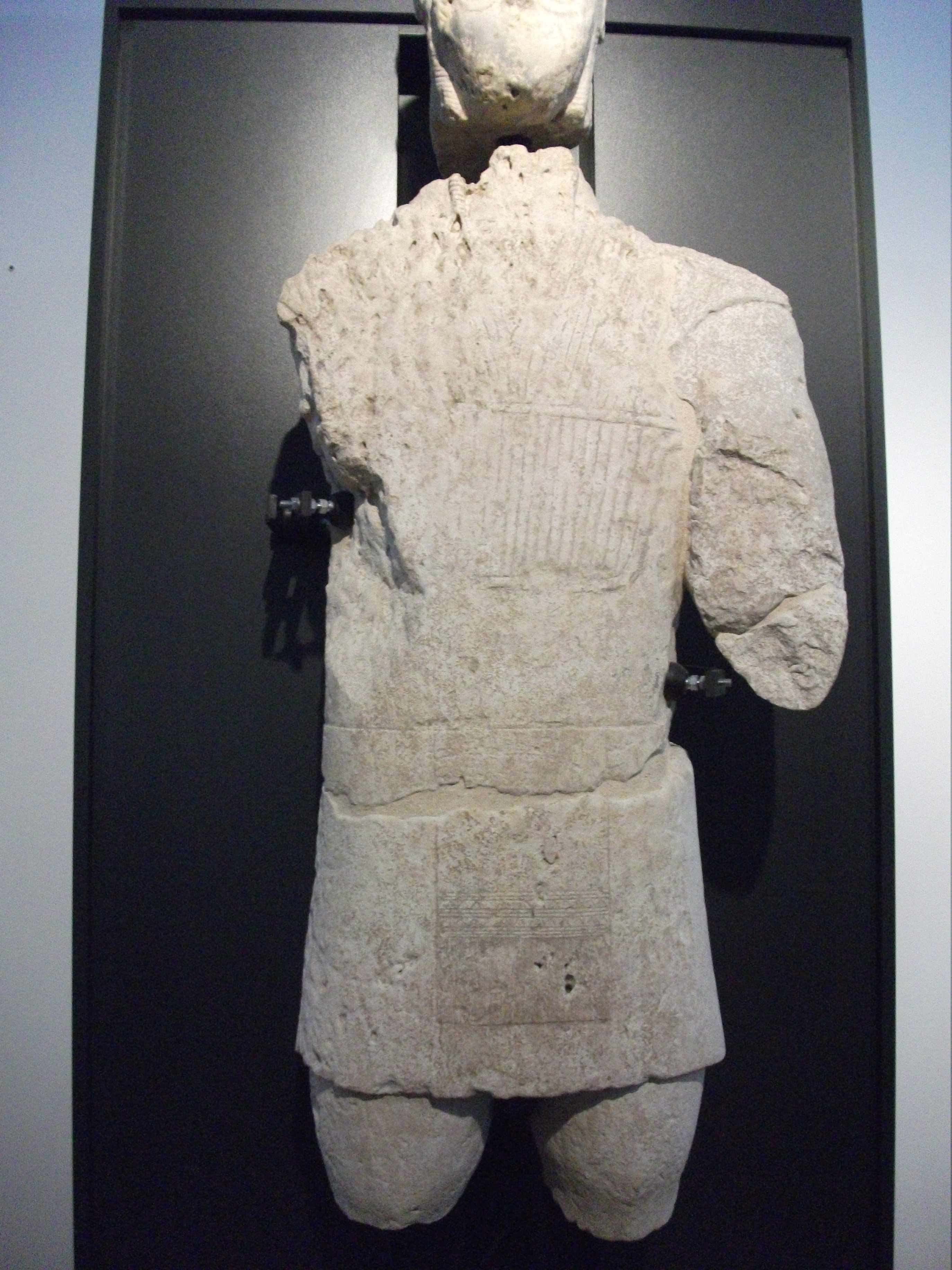 Sculpture, Giant of Monte Prama, warrior, Sardinia, Italy, Nuragic civilization,archaeology, bronze age